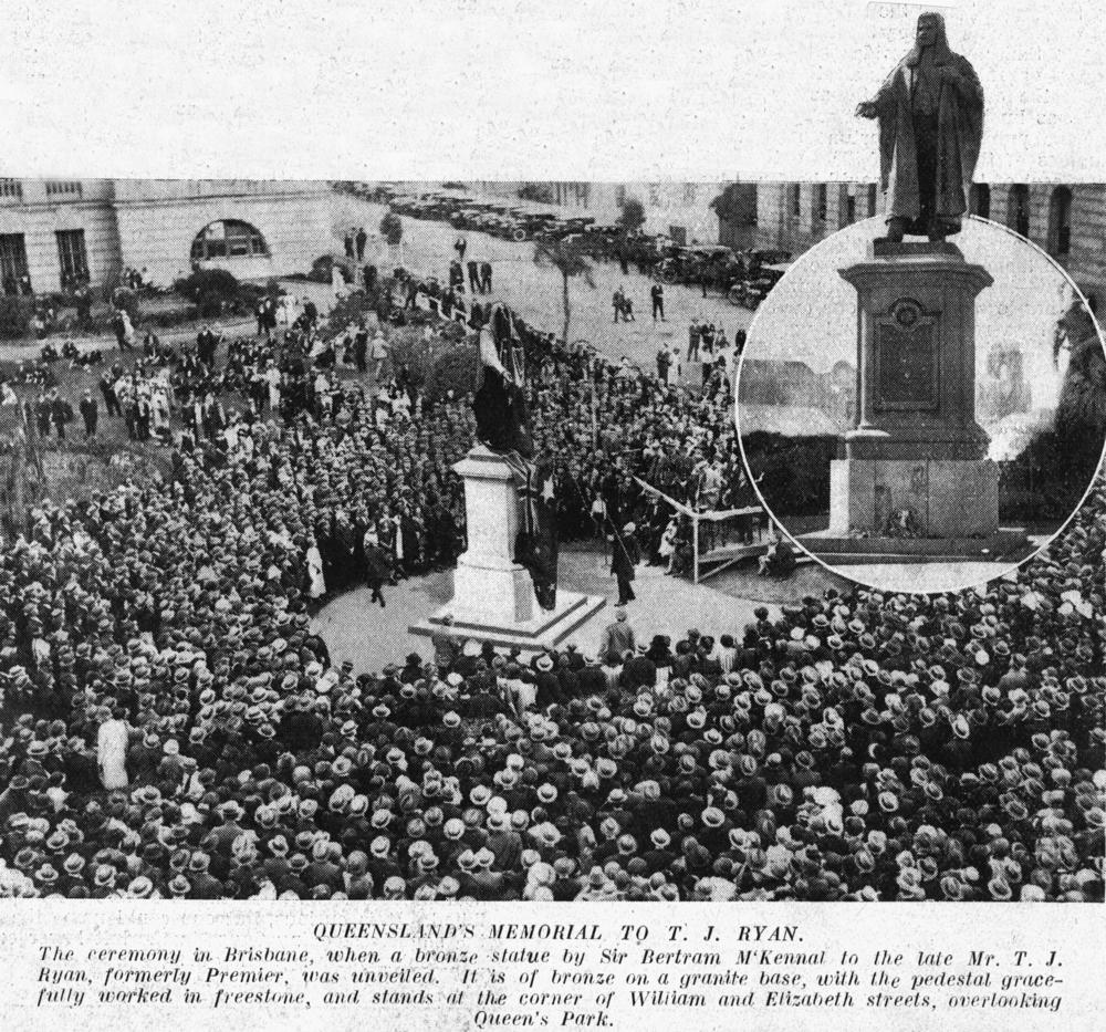 Unveiling a statue of Thomas Joseph Ryan at Queen's Park, Brisbane, 1925 Thomas Joseph Ryan, 1876-1921, barrister and politician, was Queensland Premier, 1915 -1919. This image depicts a crowd at the unveiling of his memorial statue in Queen's Park, Brisbane. Caption: Queensland Memorial to T. J. Ryan. The ceremony in Brisbane, when a bronze statue by Sir Bertram McKennal to the late Mr T. J. Ryan, formerly Premier, was unveiled. It is of bronze on a granite base with the pedestal gracefully worked in freeestone, and stands at the corner of William and Elizabeth Streets, overlooking Queen's Park.